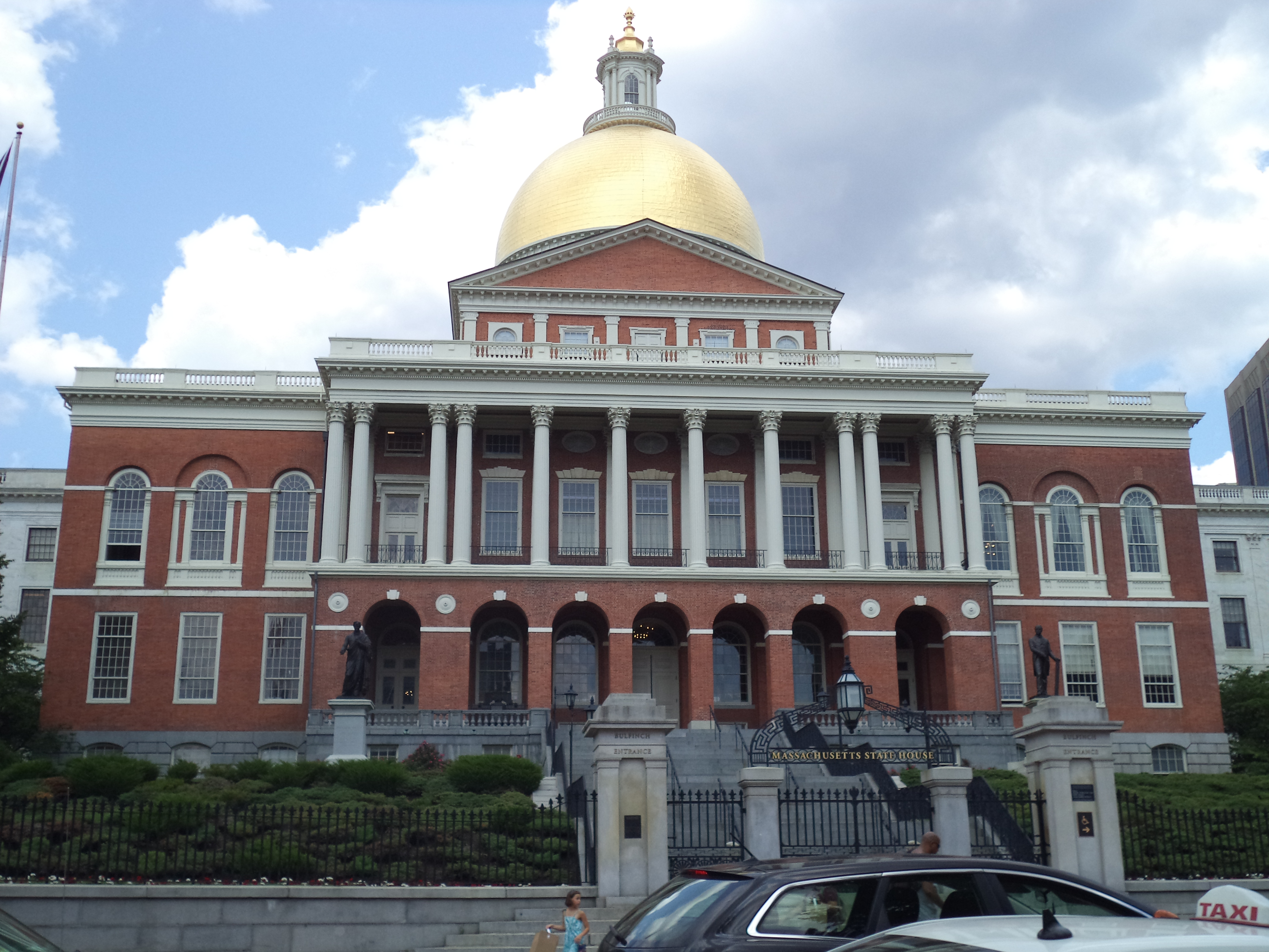 Massachusetts Statehouse, Beacon Hill Beacon Hill